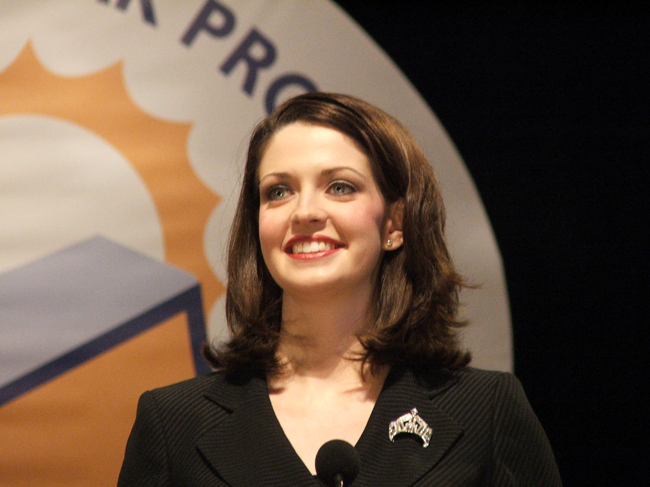 Miss America, 2005 - Deidre Downs, photo taken at the Jimmy Carter Work Project in Benton Harbor, Michigan.